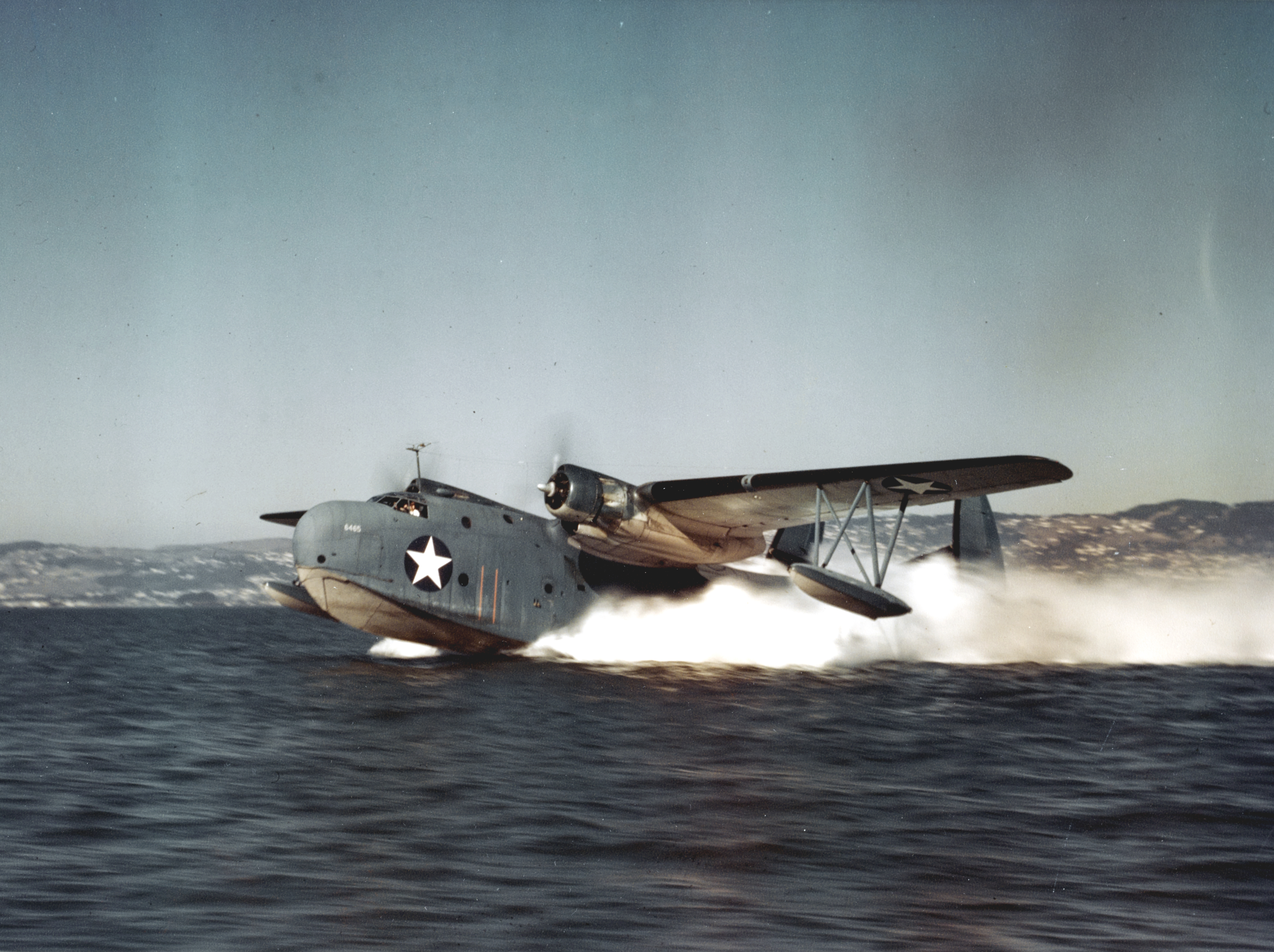 A U.S. Navy Martin PBM-3R Mariner transport aircraft (BuNo 6465) taking off, circa 1942-43.